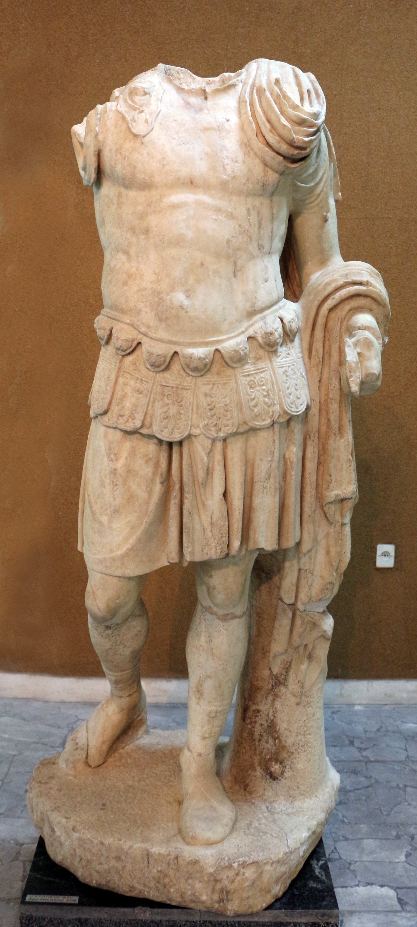 Roman art, soldier statue, 1st century from Butrin